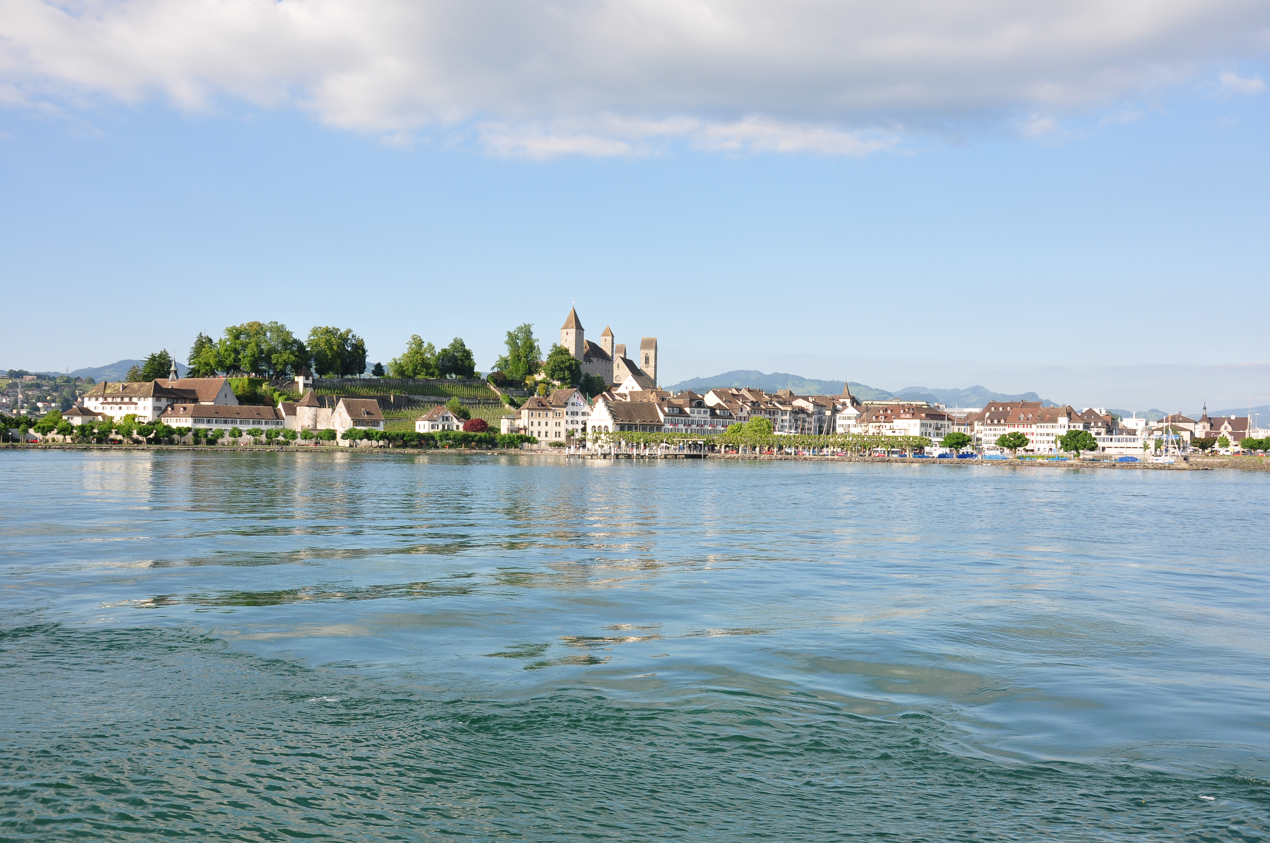 Rapperswil (Switzerland) as seen from ZSG motorship Wädenswil